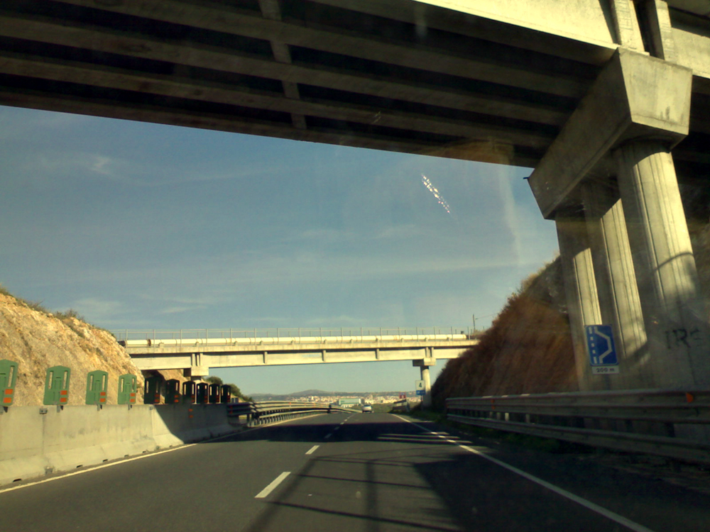 freeway Sassari-Alghero ss291 della Nurra